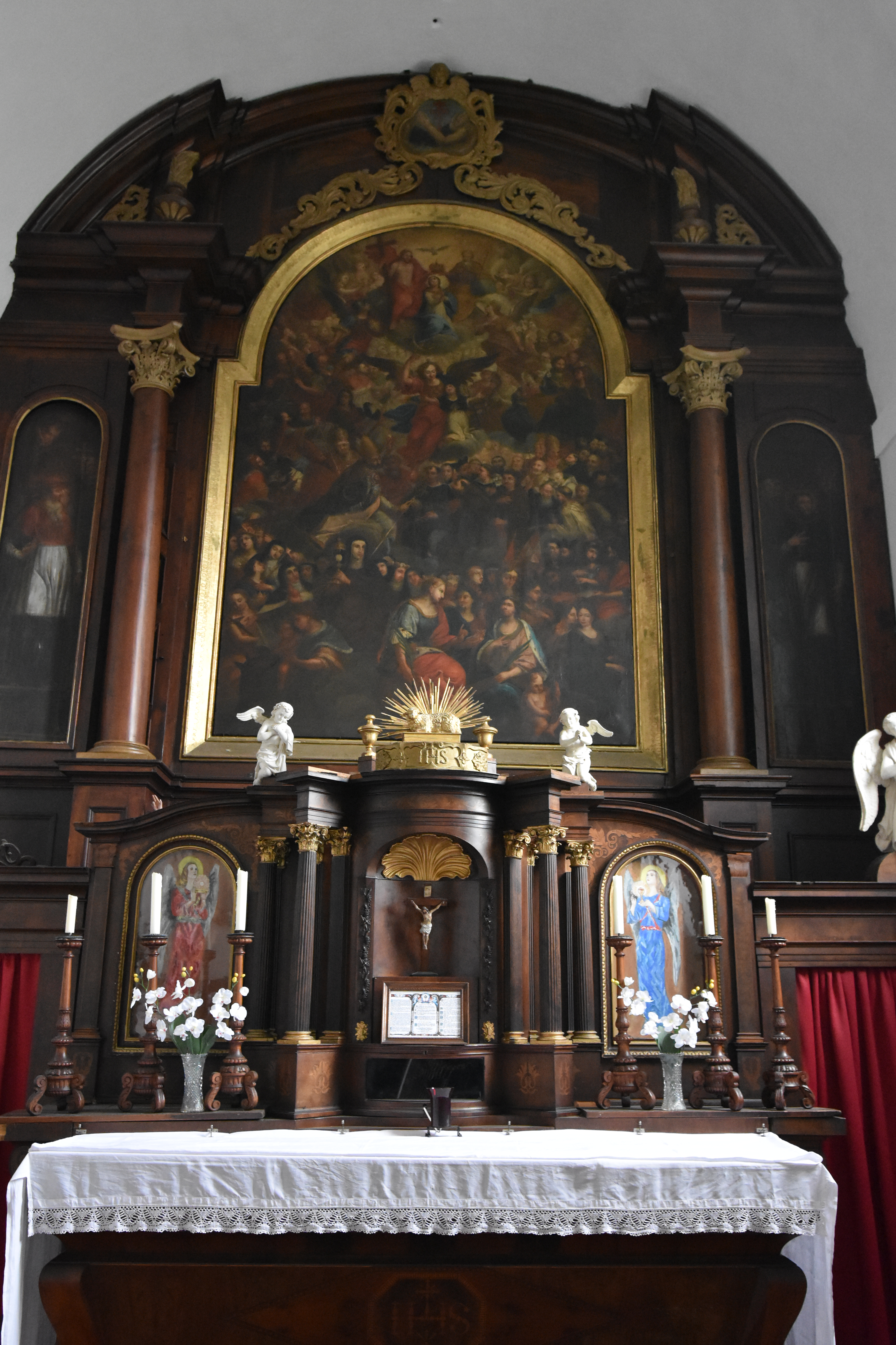 Church Ehem Kapuzinerkloster Schwanberg, Steiermark - Interior